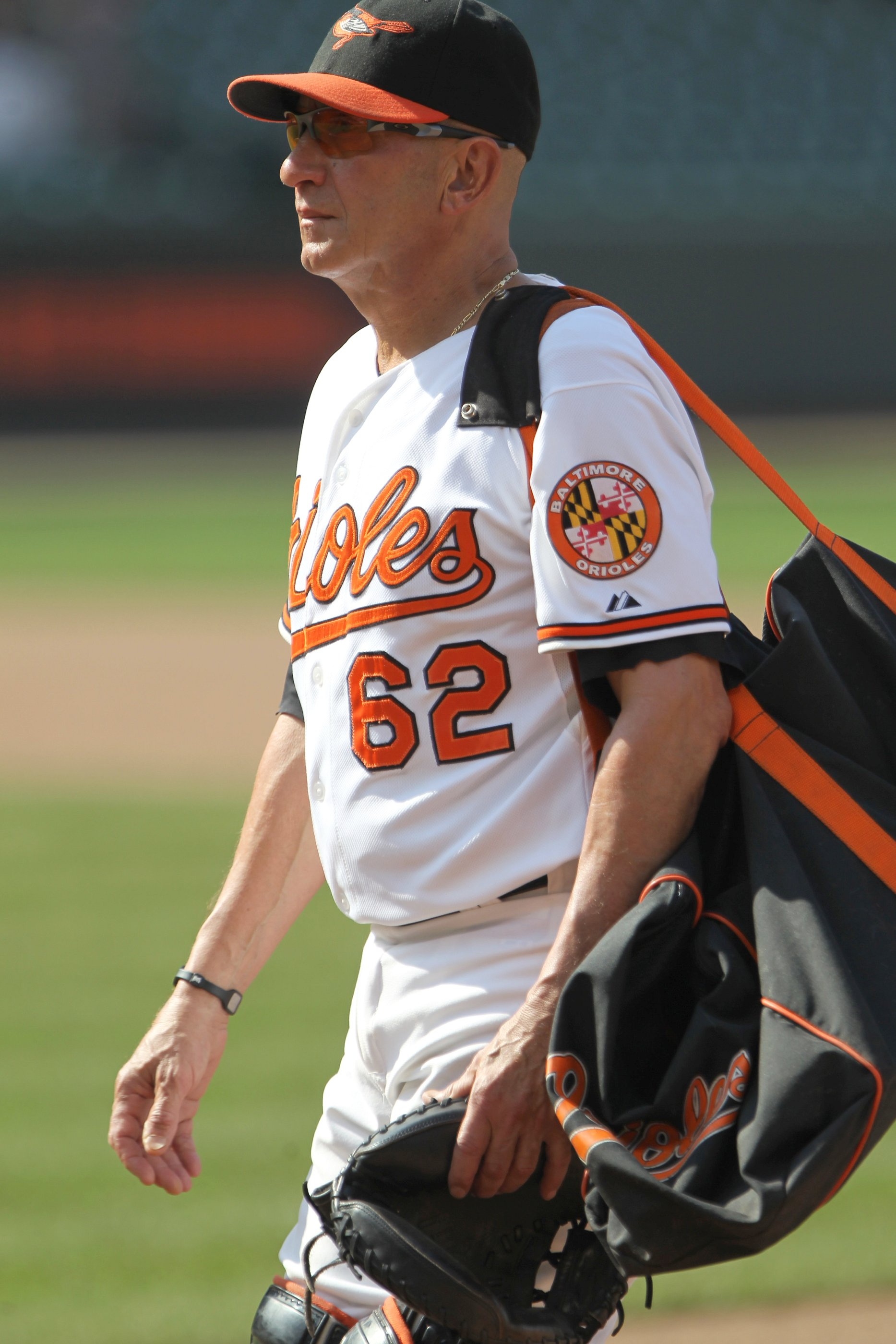 Tigers at Orioles August 14, 2011